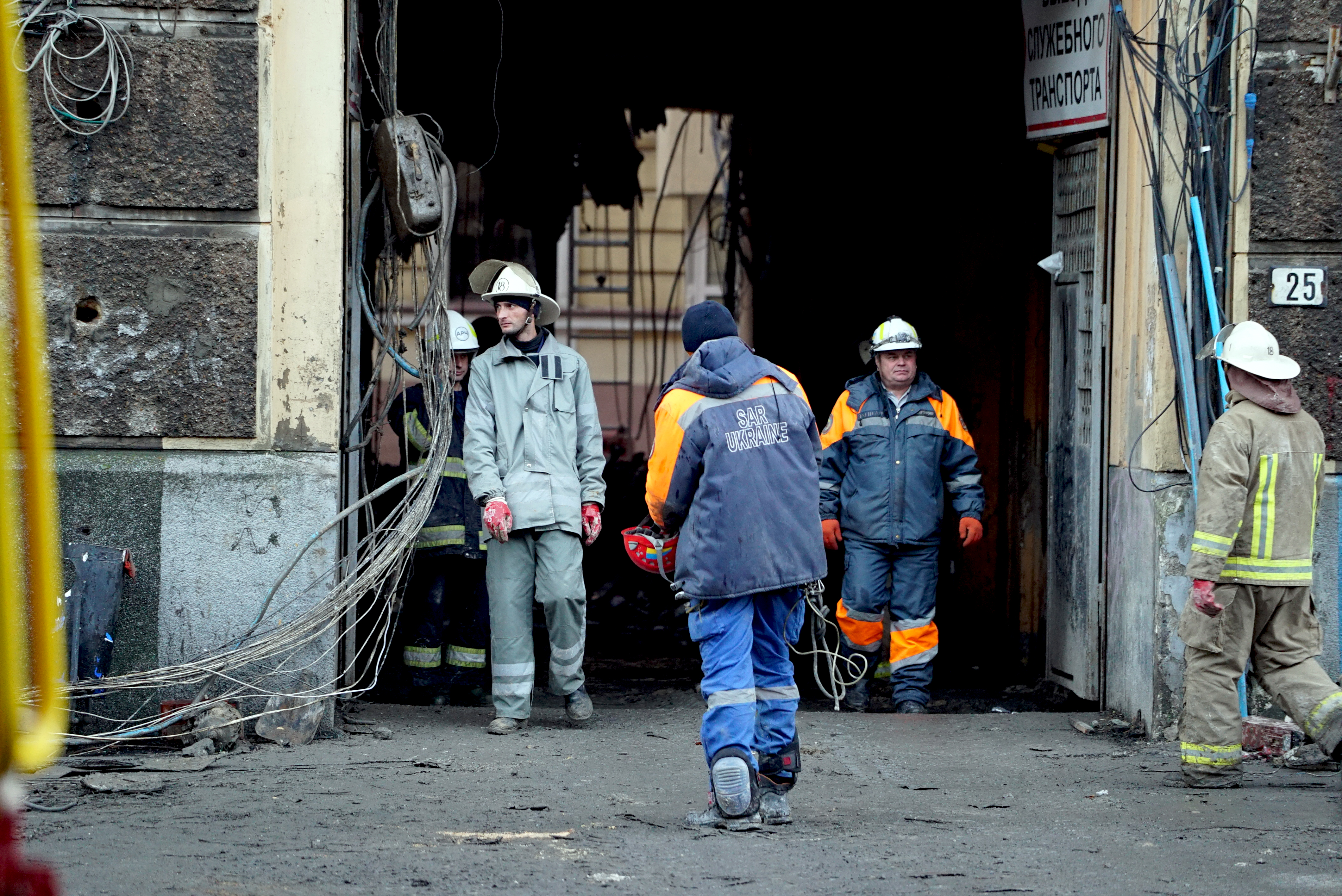 Fire-damaged Asvadurov House, Odessa. Photo of fire place in two days